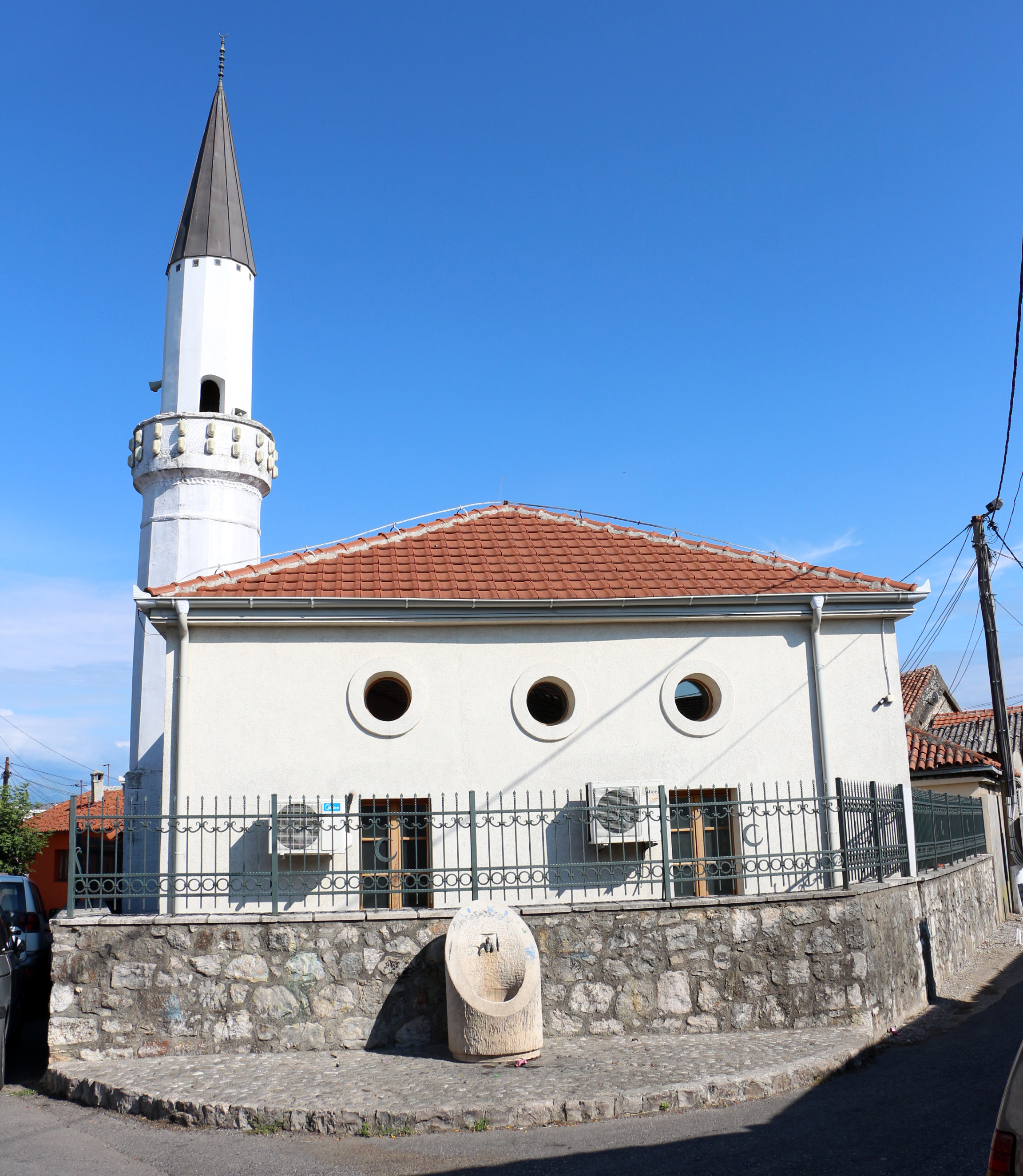 Mosques in Podgorica